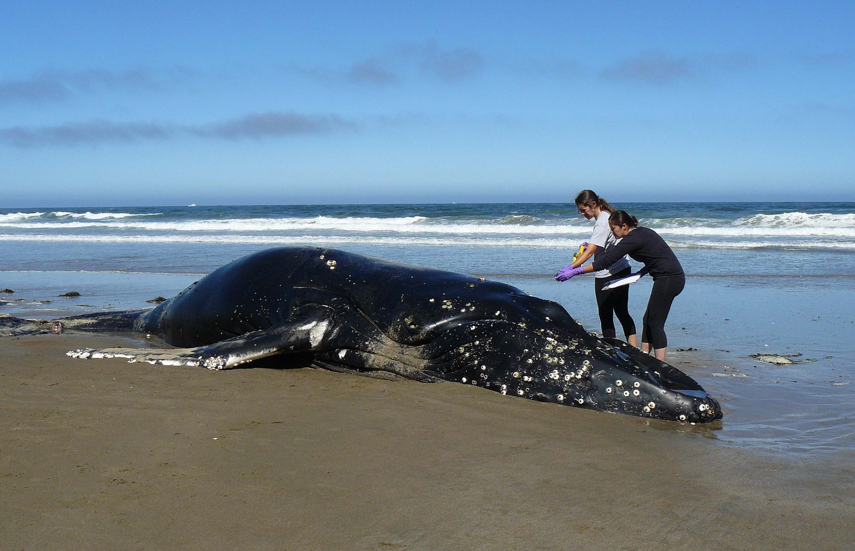 On June 28, 2014 a recently deceased Humpback Whale washed ashore about 1/6 of a mile north of Hazard Reef in Montaña de Oro State Park, Calif. A measurement of 35 feet indicated the whale may not have reached full maturity. Adult Length, 40-50 ft, weight 25-40 lbs. for more info I have a brief video. The tail, above the flukes had been severely injured (nearly severed). Entanglement in fishing paraphernalia could be a likely cause of the injury. Statistics were being gathered by researchers from the Channel Islands Cetacean Research Unit.